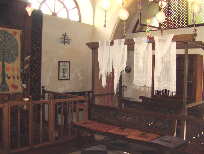 Chania_Synagogue_b. Credit: Courtesy of Arie Darzi to memorialize the Jewish community in Greece.